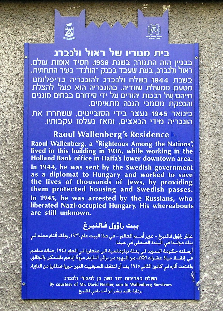 Wallenberg home in Haifa Source i took this pic free use to everyone blesed be the one who uplode it to more viki's--Shlomiliss 21:22, 5 December 2006 (UTC)